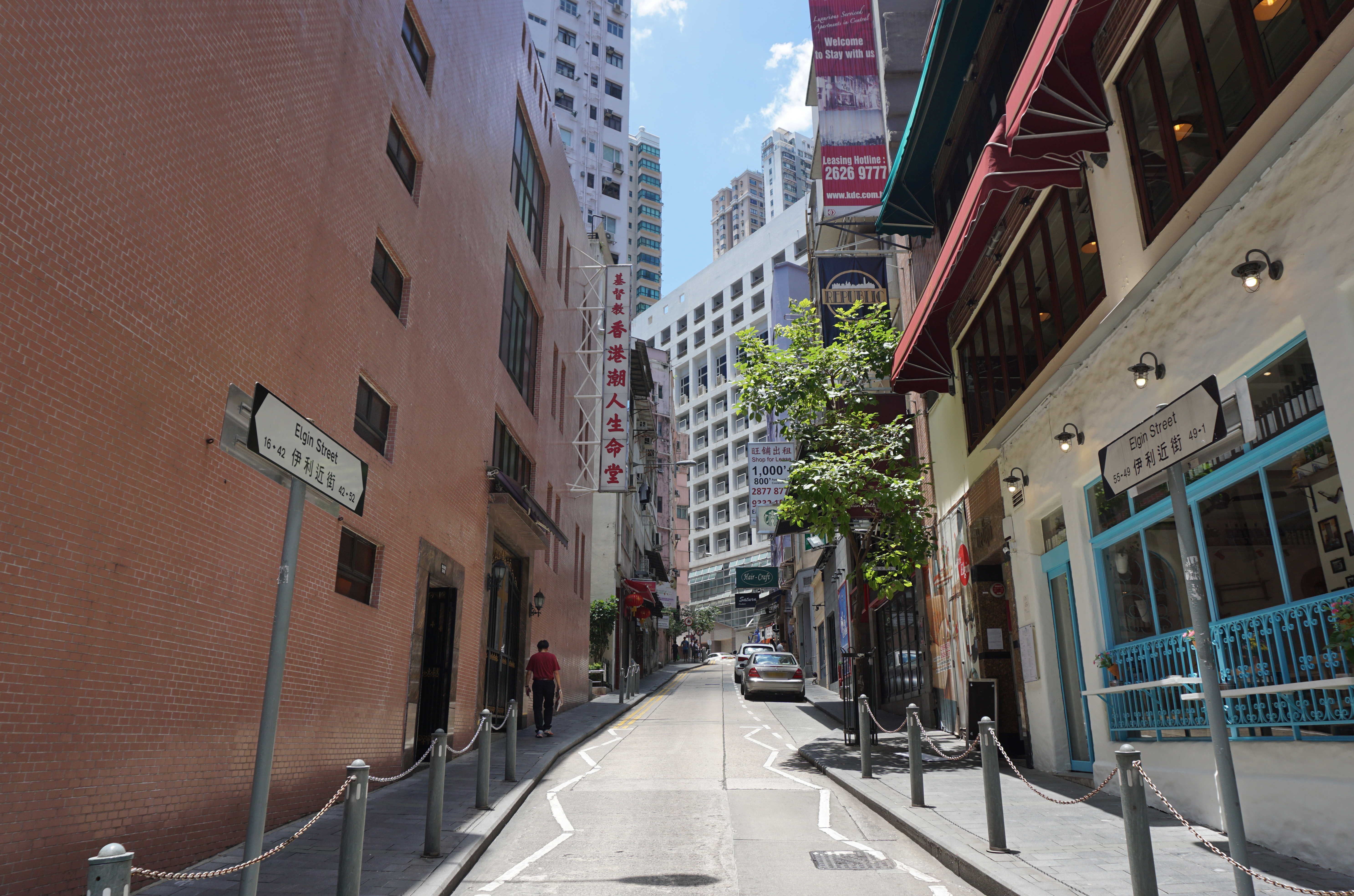 Elgin Street in Central, Hong Kong.